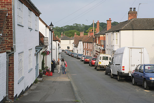 West Street, Titchfield Village Looking down the hill towards the High Street. The first brick building on the right is named The West End Inn.